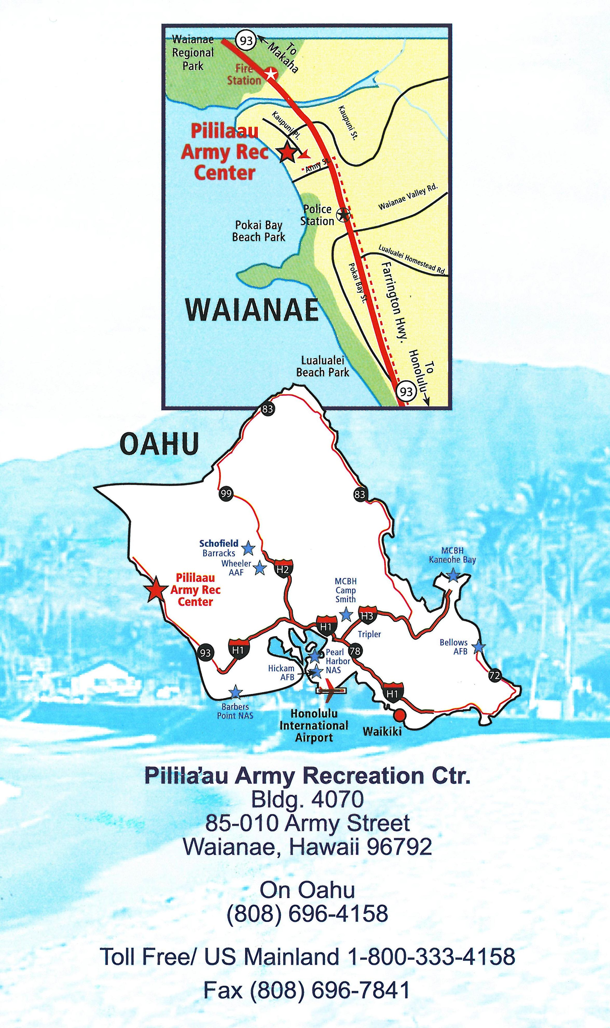 Map showing where the PARC is located on the island of Oahu.